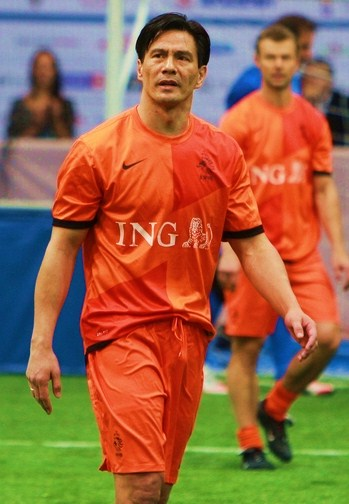 Michael Alexander Mols